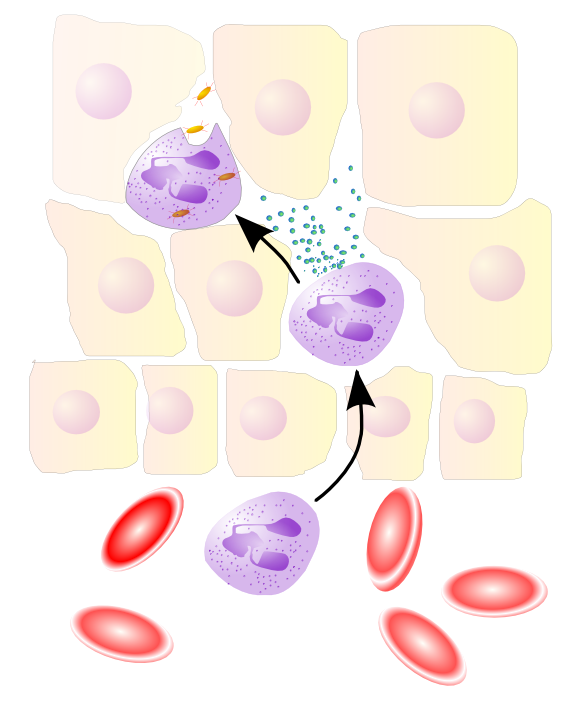 Neutrophil granulocyte migrates from the blood vessel to the matrix, secreting proteolytic enzymes, in order to dissolve intercellular connections (for improvement of its mobility) and envelop bacteria through Phagocytosis.